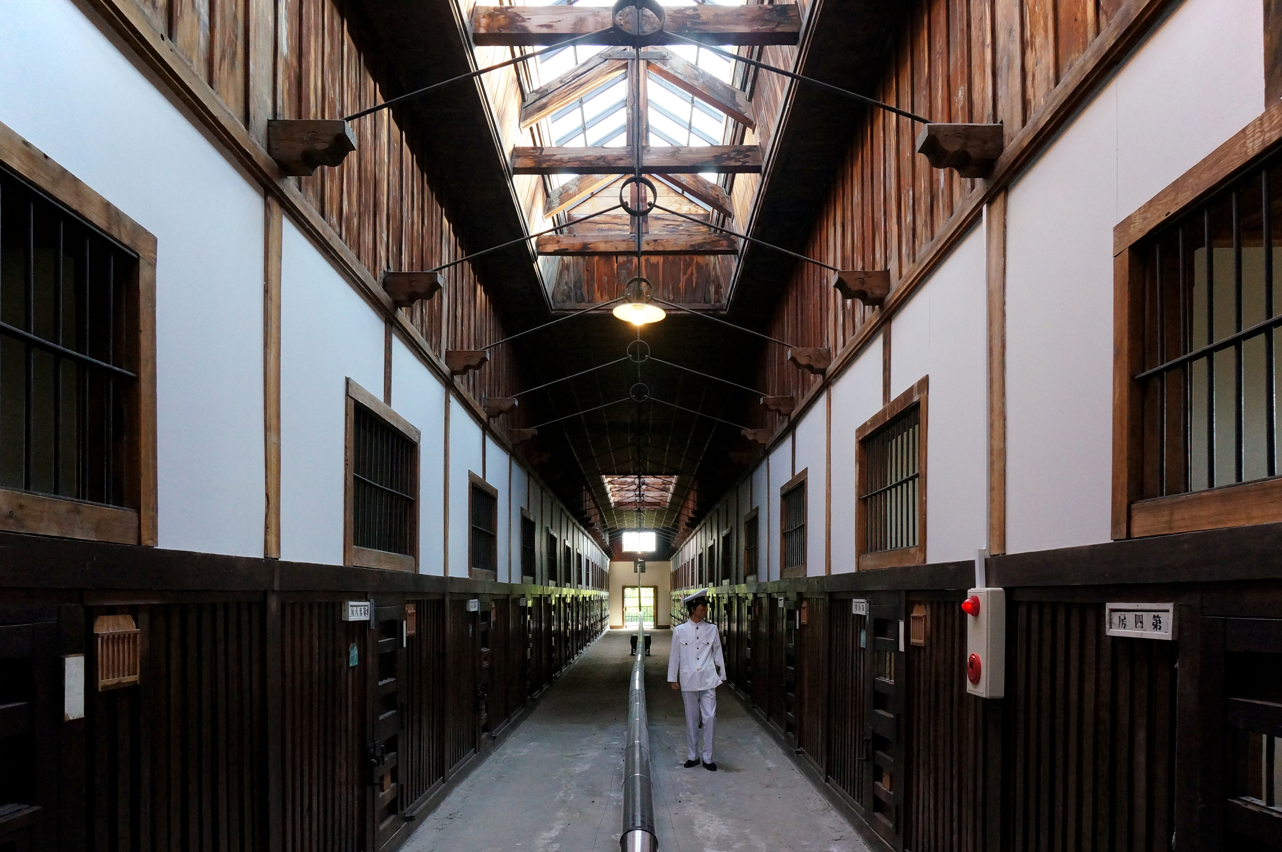 Abashiri Prison Museum in Abashiri, Hokkaido, Japan.